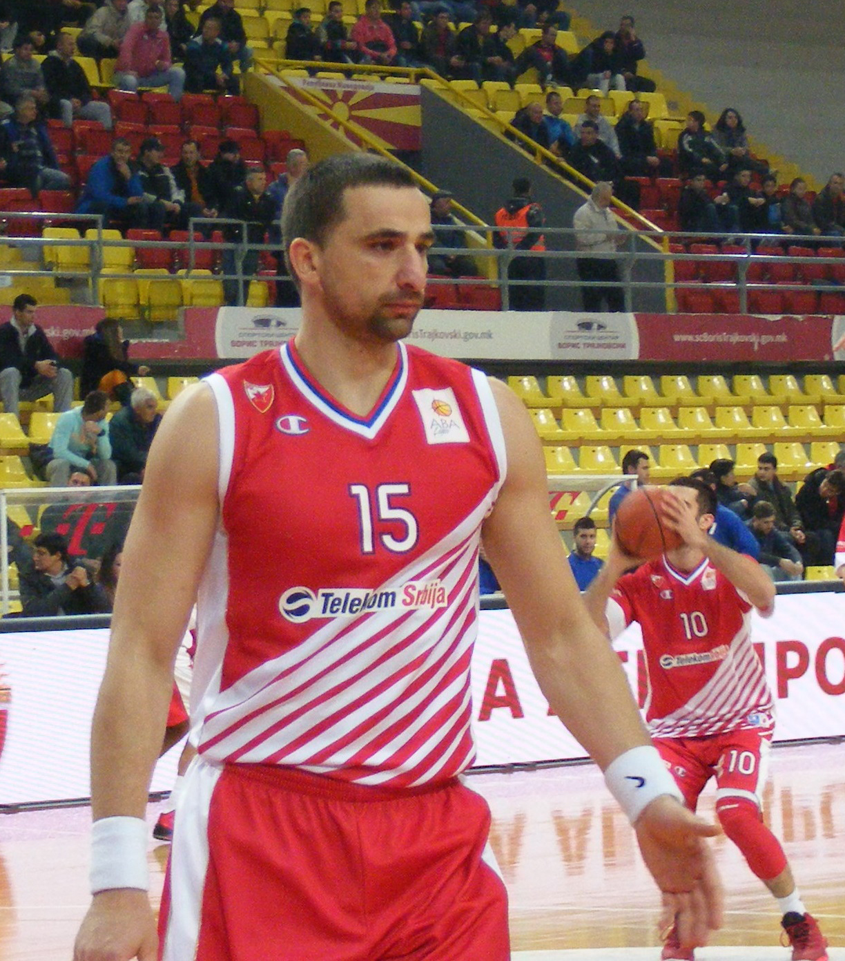 Rasko Katic